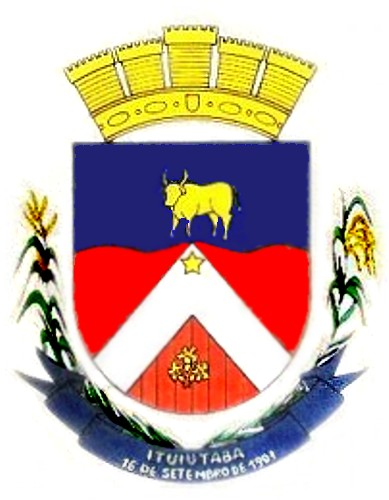 Coat of arms of Ituiutaba